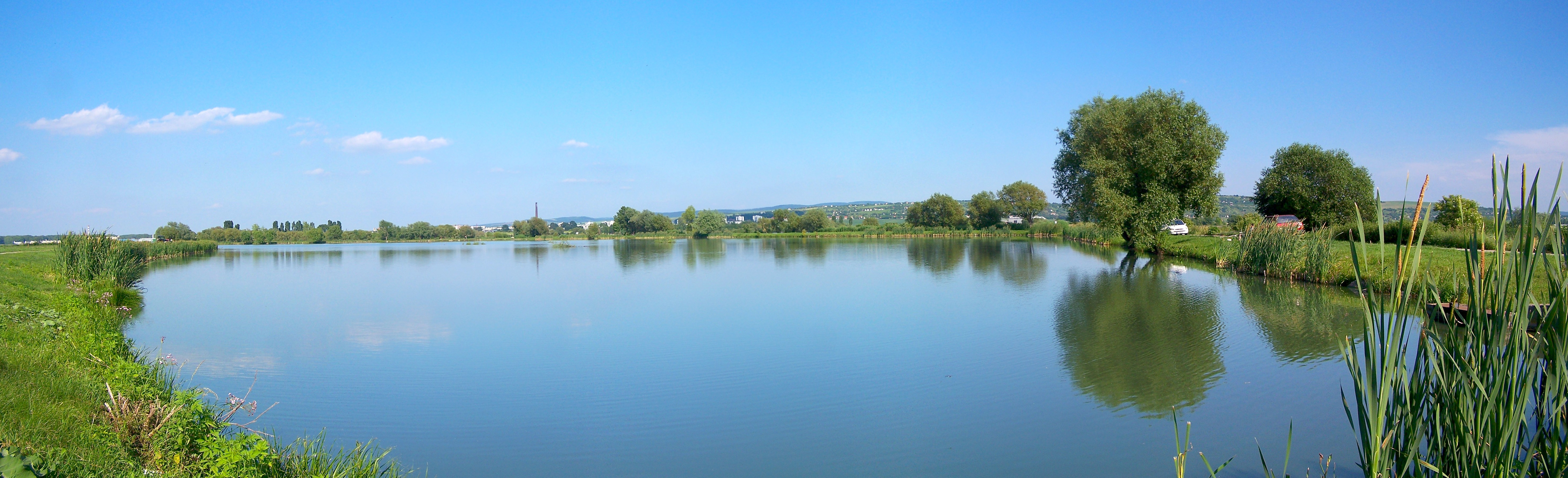 Fish pond of skalica in sommer